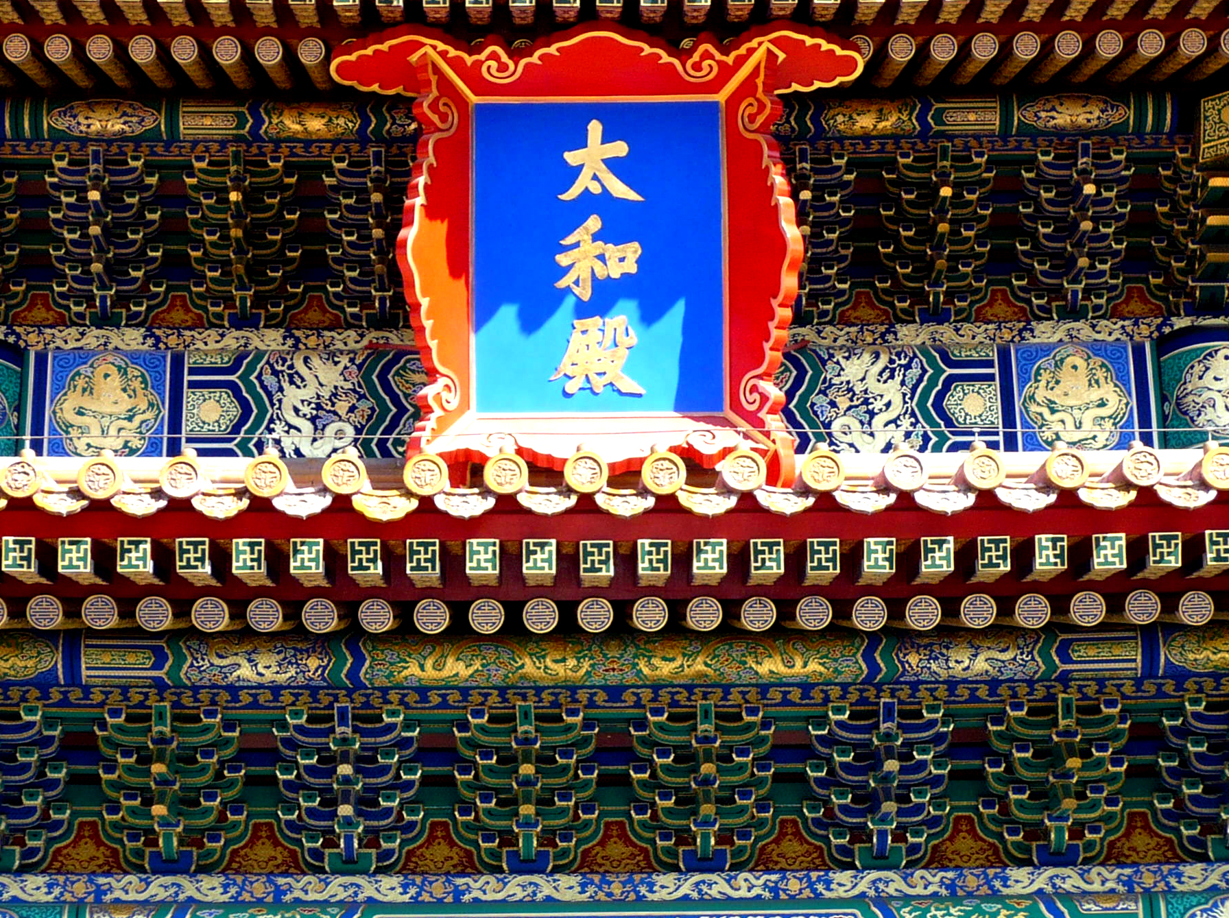 Dougong of Hall of Supreme Harmony